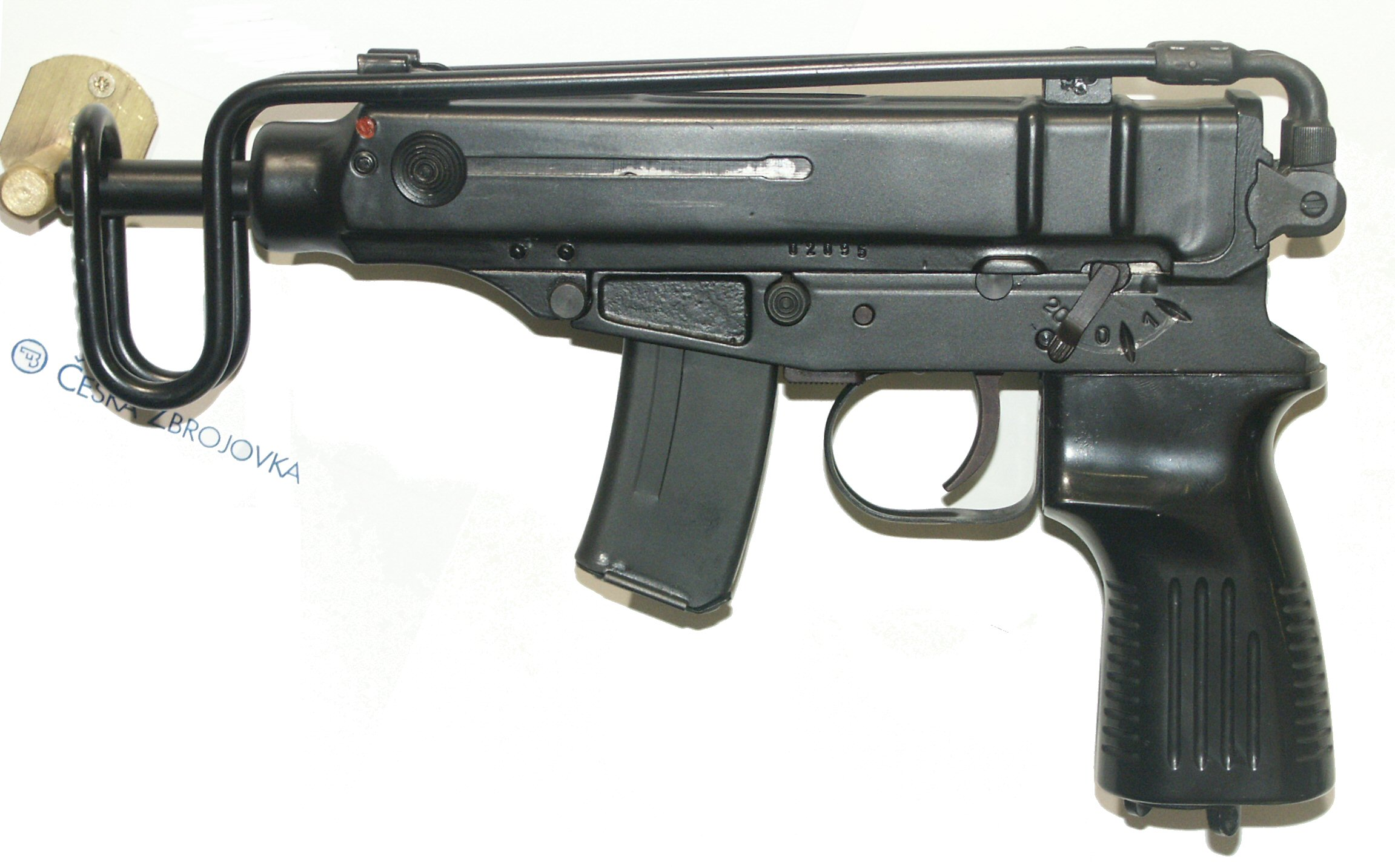 Czech Skorpion vz.61E SMG (7.65mm Browning, short 10-round magazine).